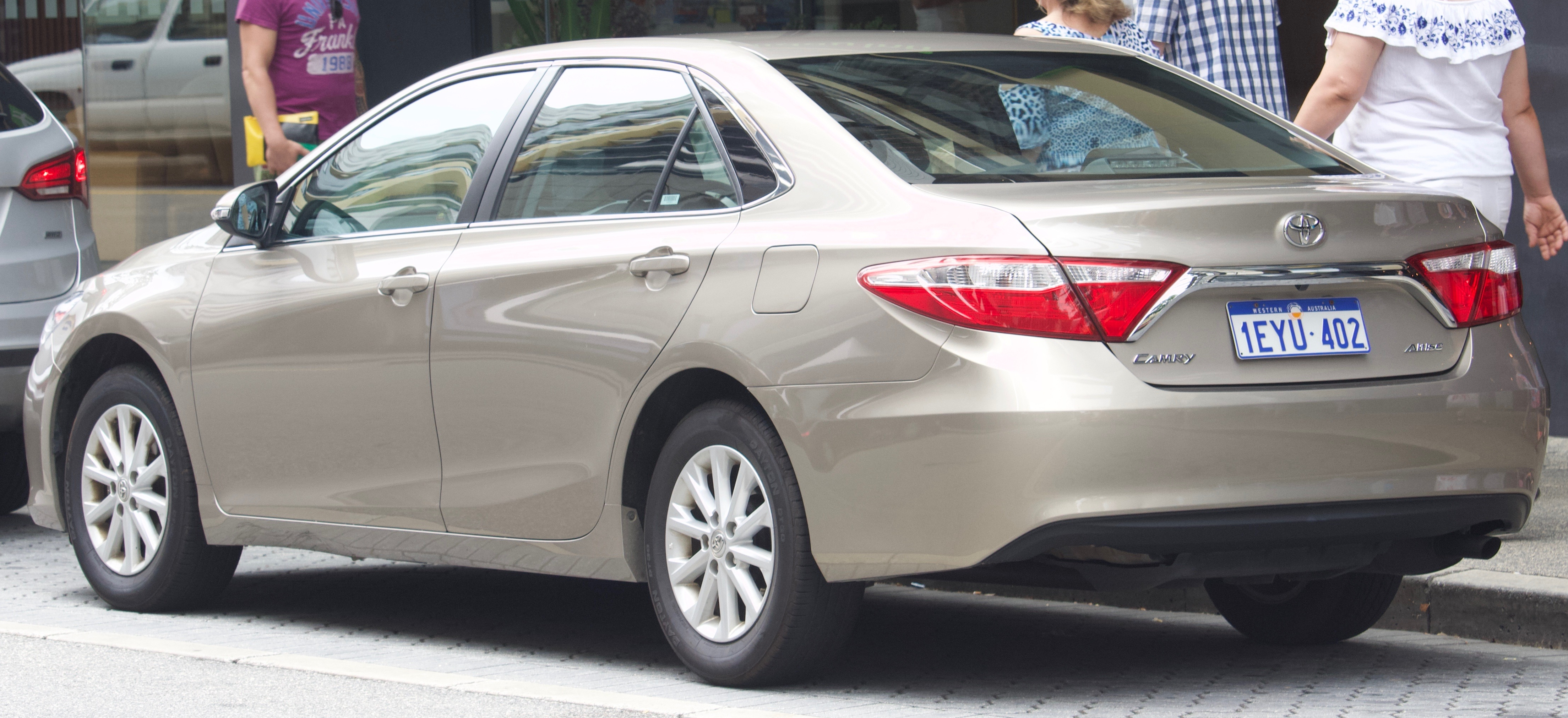 2016 Toyota Camry (ASV50R) Altise sedan. Photographed in Perth, Western Australia, Australia.